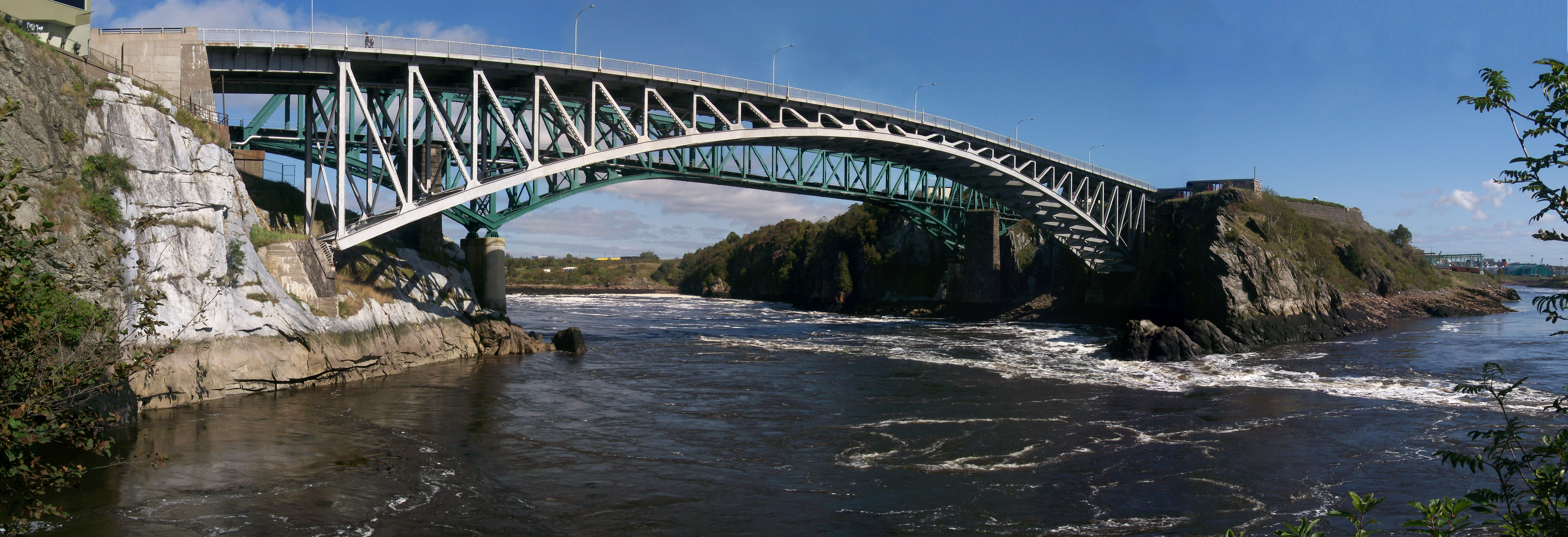 St. John New Brunswick Reversing Falls Bridge